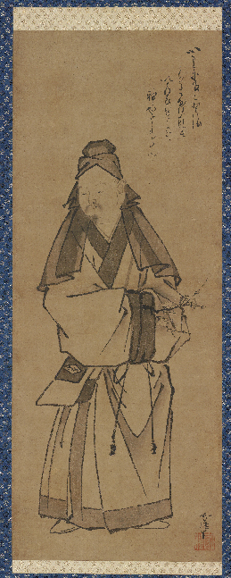 Tenjin Crossing to China late 15th century Sesshin Muromachi period Ink on paper H: 74.5 W: 29.6 cm Freer Gallery of Art, F1983.8 Copyright 2011 Digital Image, Smithsonian Institution